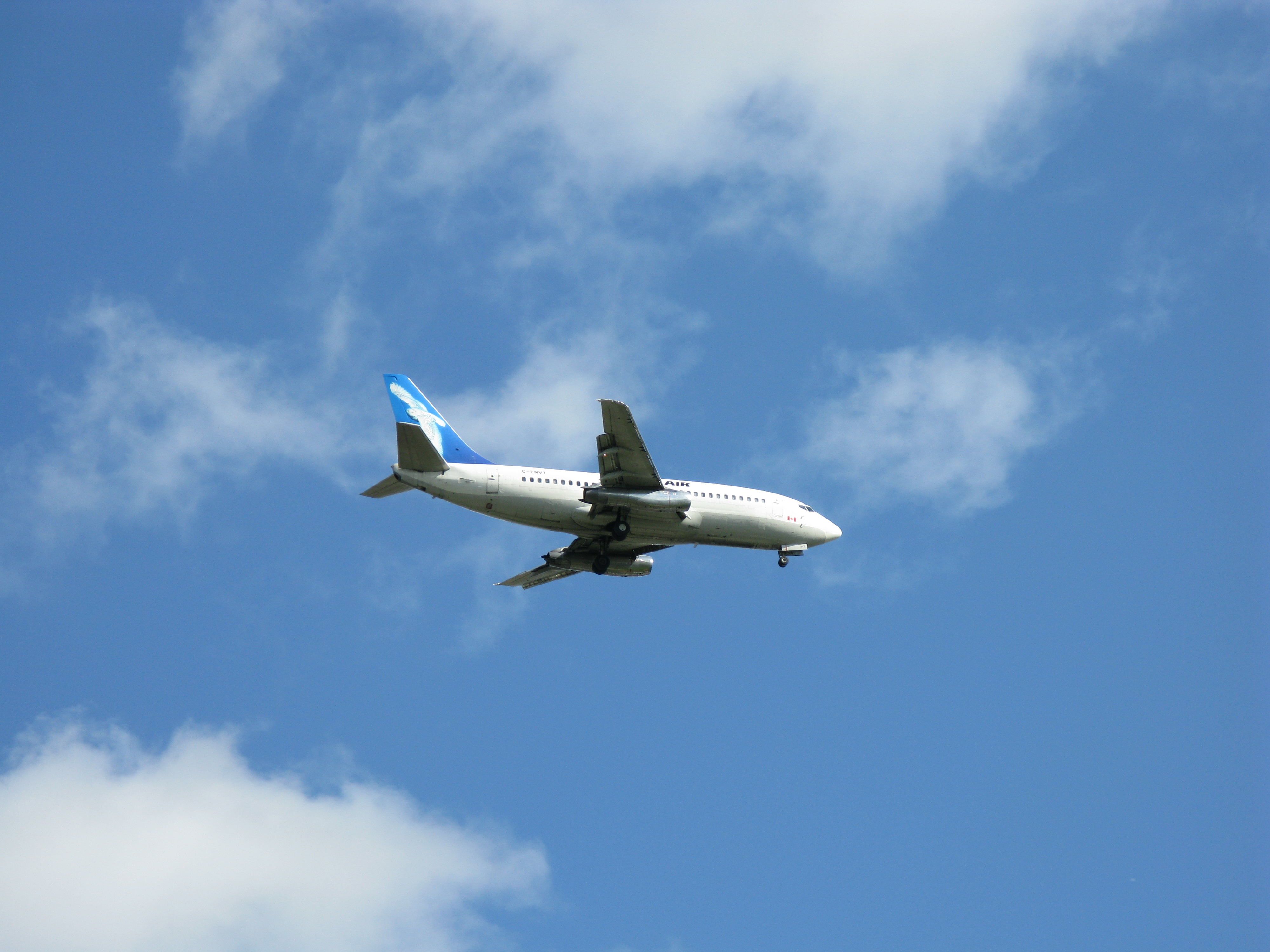 A First Air Boeing B737-200 (civil registration : C-FNVT) on final for runway 24R at Montréal-Trudeau International Airport (YUL/CYUL).